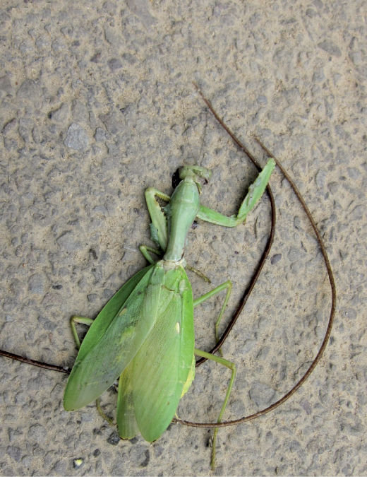 Mantis Hierodula sp., with both specimens of hairworm Chordodes mizoramensis ((Nematomorpha: Gordiida)) emerging from it.